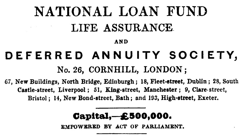 Excerpt of advertisement published in the 1840 edition of the Oracle of Rural Life (a.k.a. the Sporting Almanack or the Sportsman's Almanack)